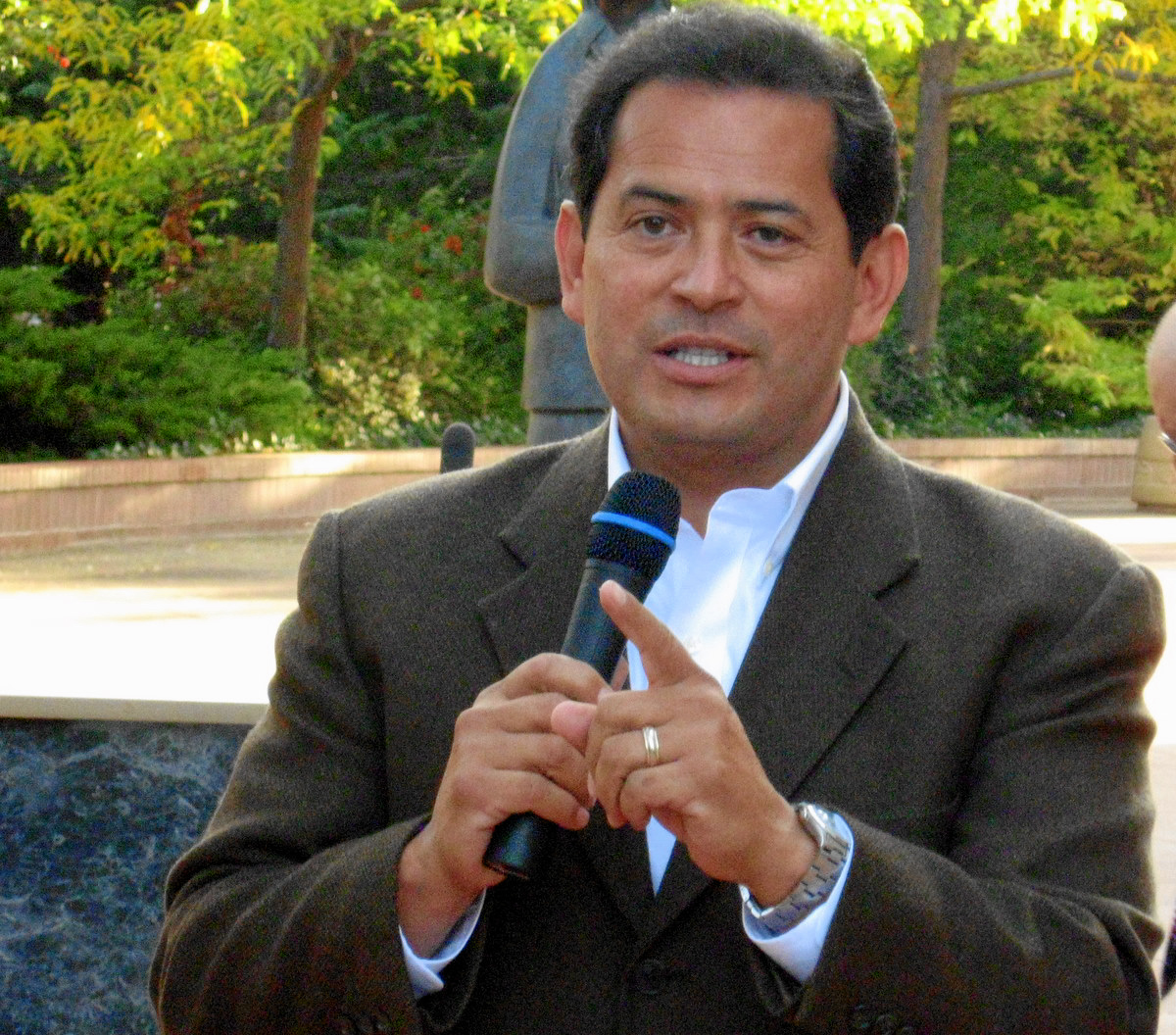 New Mexico Lieutenant Governor John Sanchez, Republican